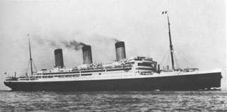 The RMS Majestic in 1922.